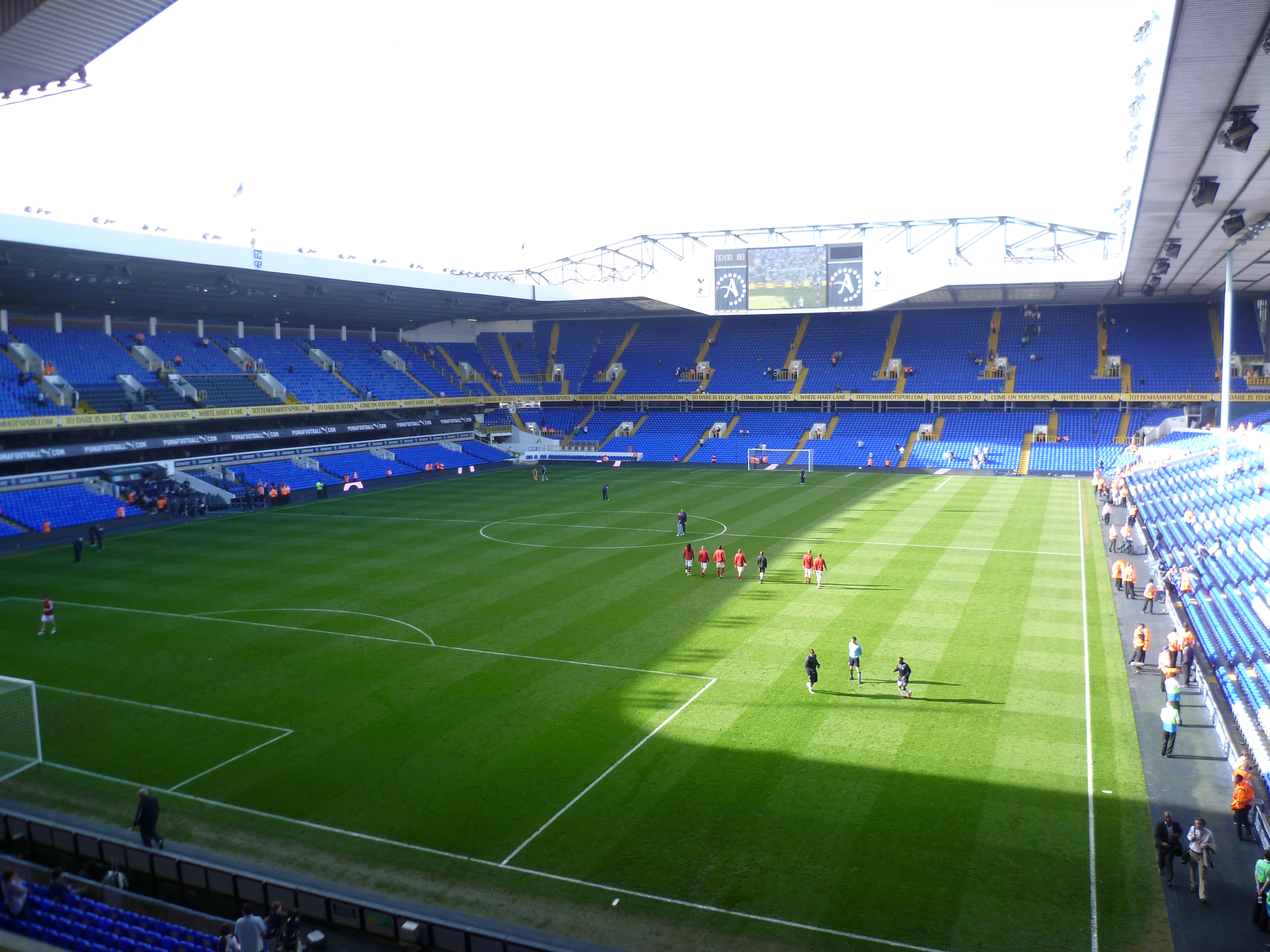 A view of the inside of White Hart Lane from the South Stand, after a match against Stoke City FC.